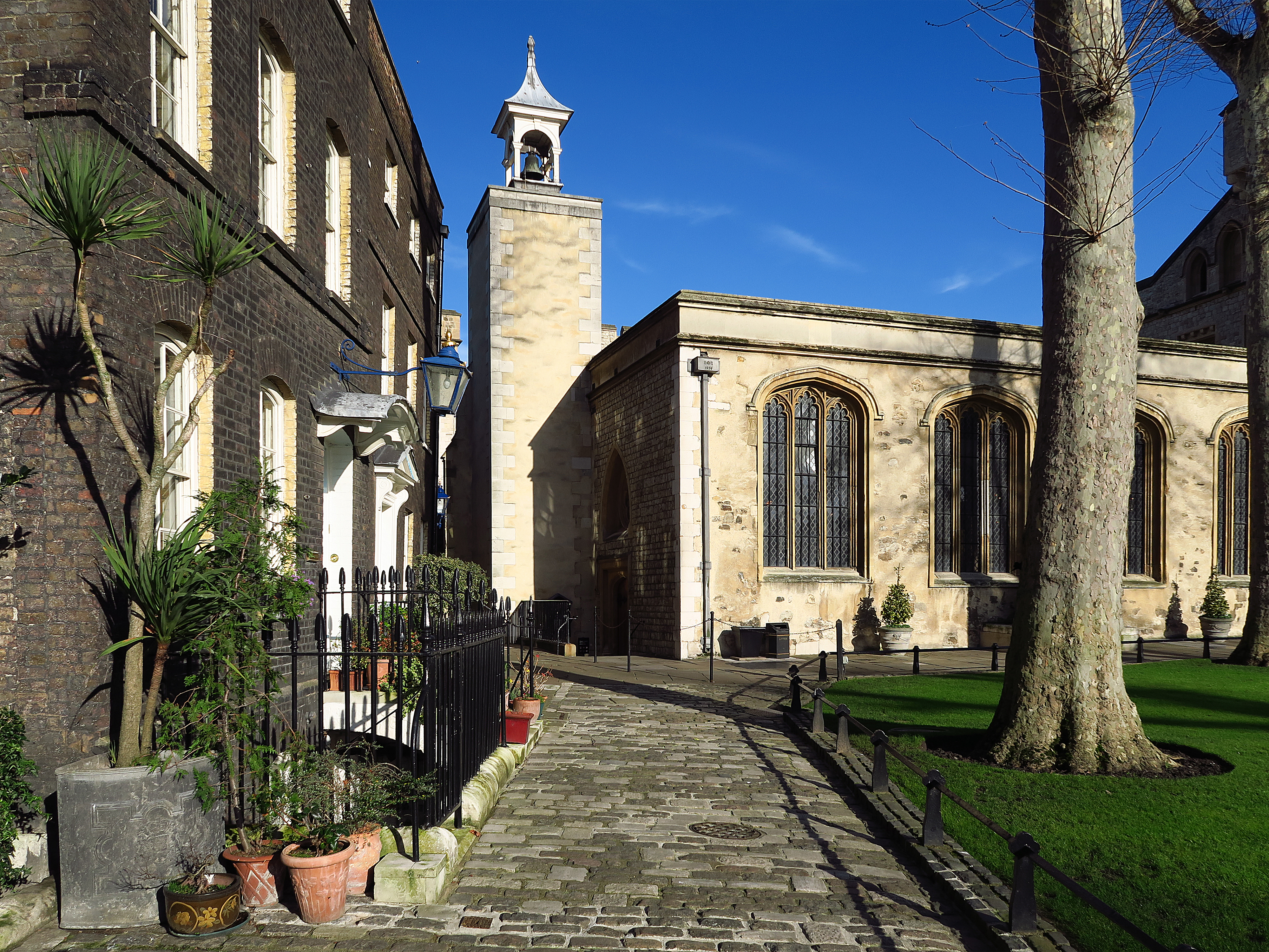 The Chapel of St Peter ad Vincula, in the Tower of London, England. Wikidata has entry Q17528188 with data related to this item.